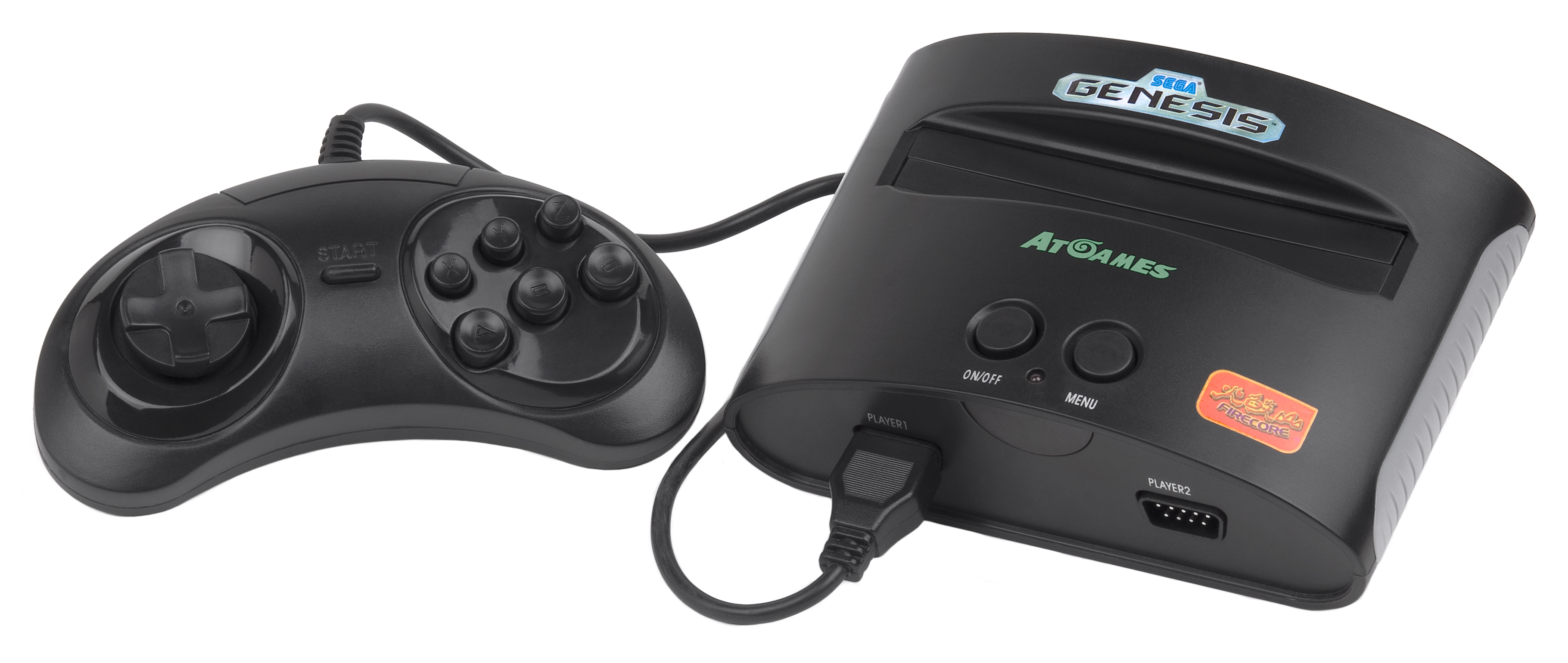 A Sega Firecore made by ATGames, a Sega Genesis that has been very parred down and comes with 20 built-in games.